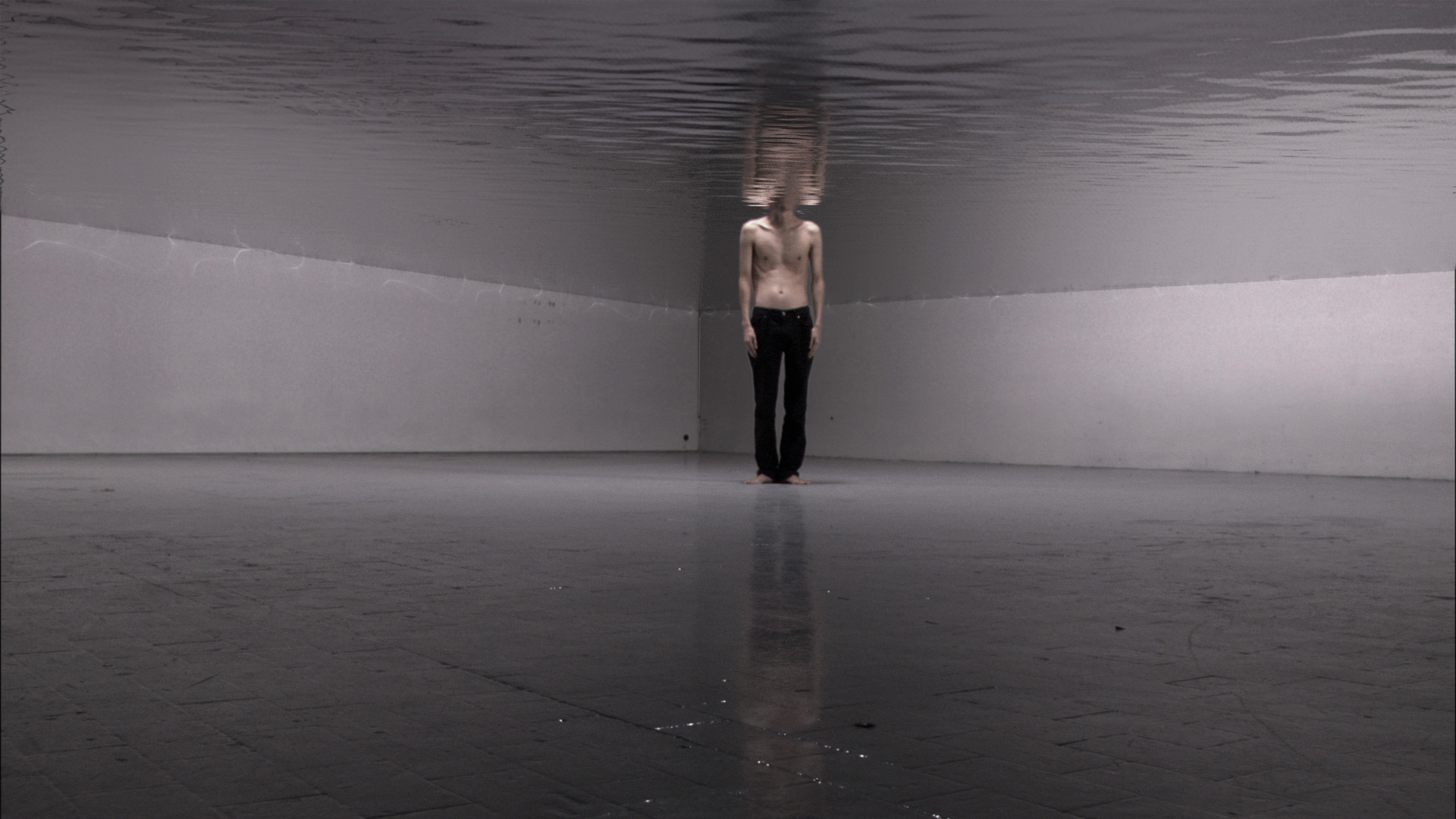 mihai, grecu, coagulate